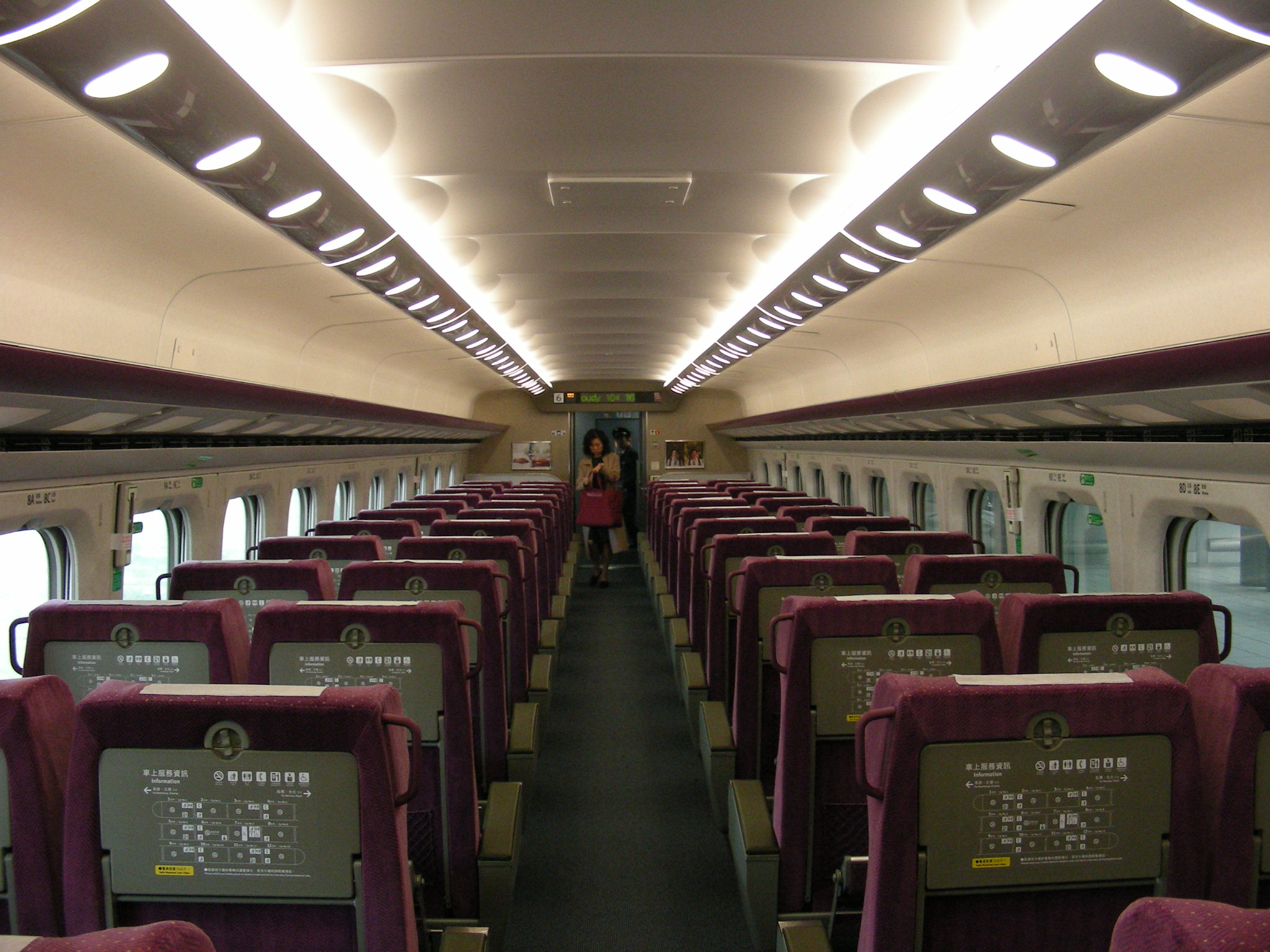 Taiwan HSR(High Speed Rail) Train, "Business Class" Car.